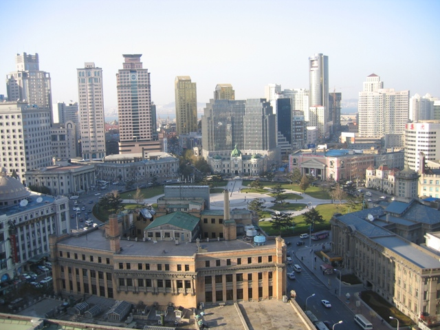 taken by author from atop the Grand Hotel, November 2004